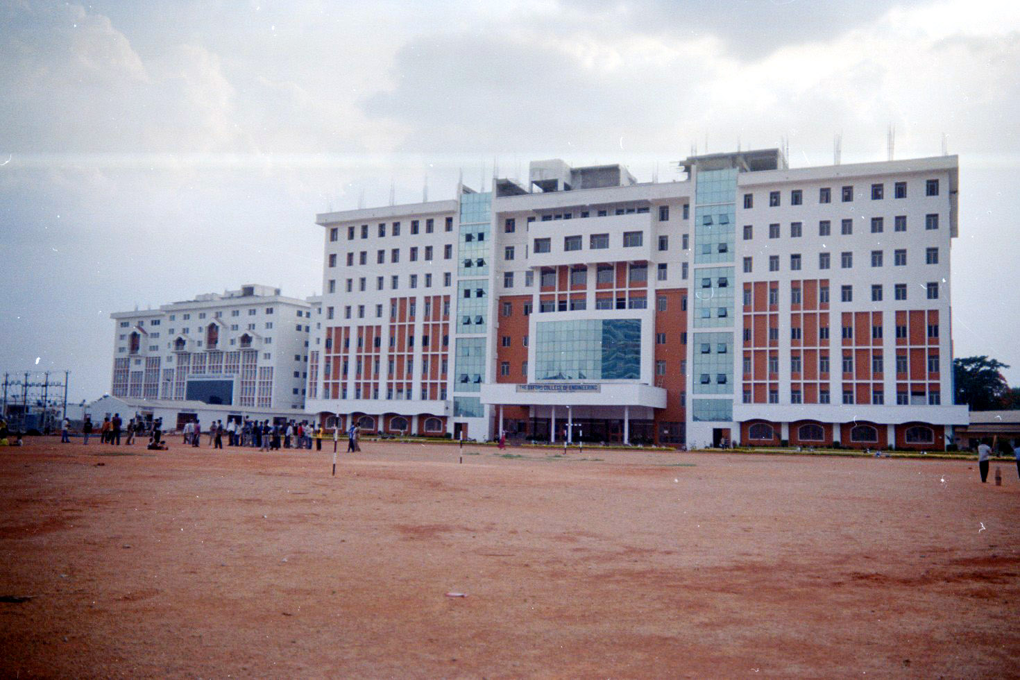 The Oxford College of Engineering, Bangalore